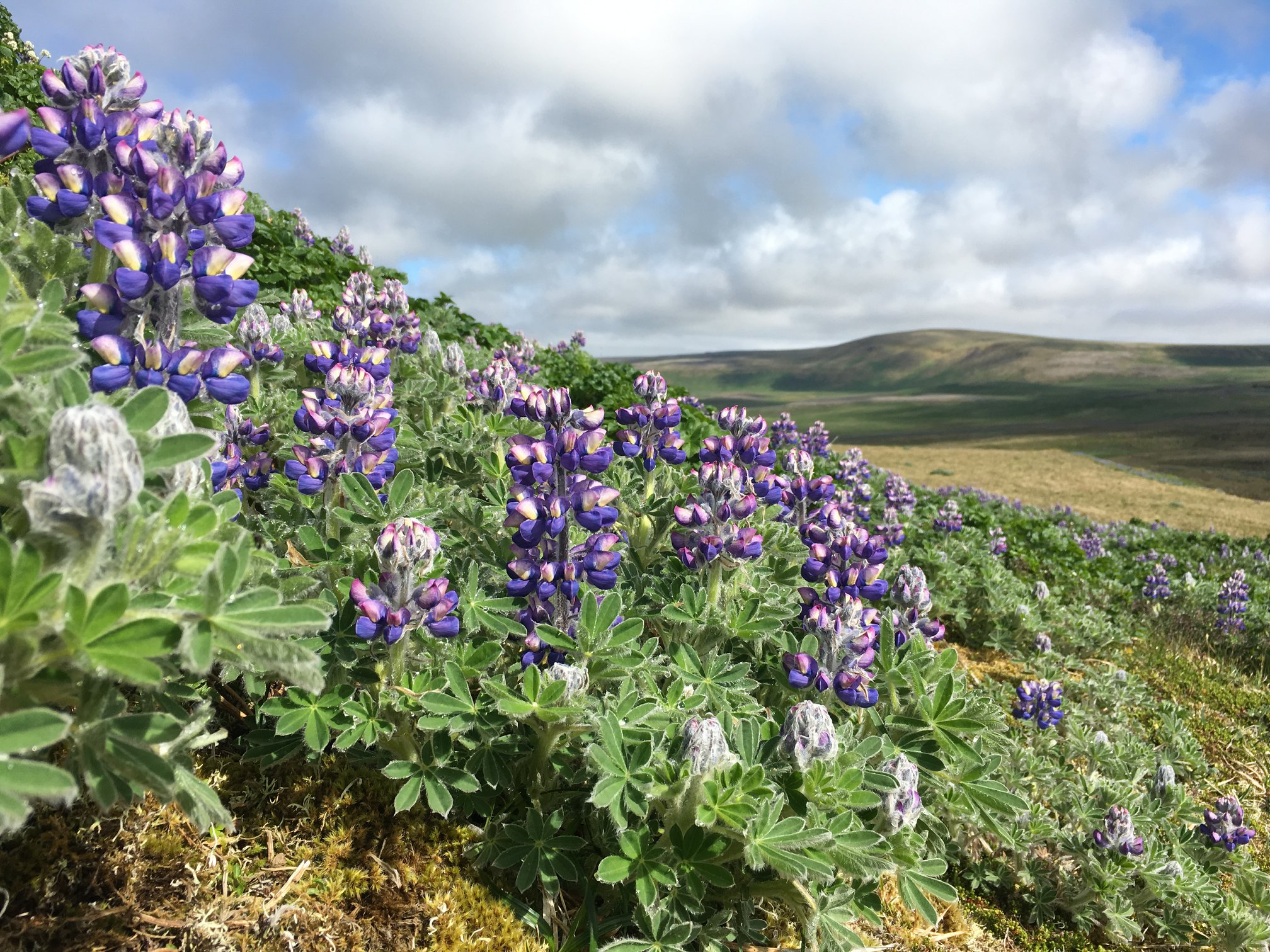 Nootka Lupine Lupinus nootkatensis on St. George, Alaska Maritime National Wildlife Refuge, Alaska by Laney White/USFWS.